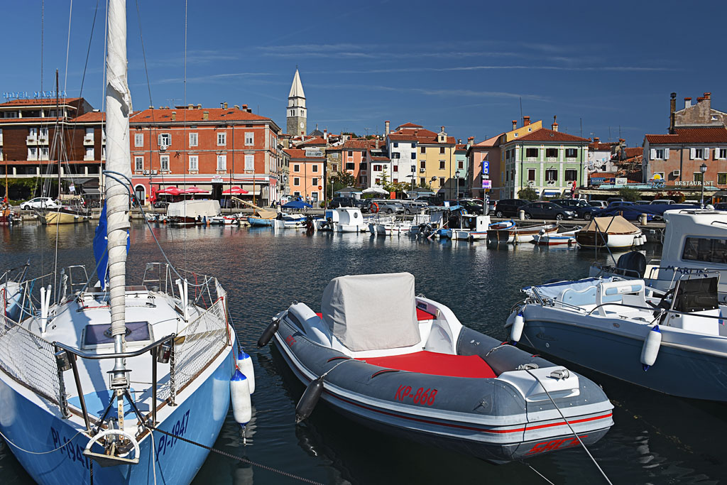 Isola, marine